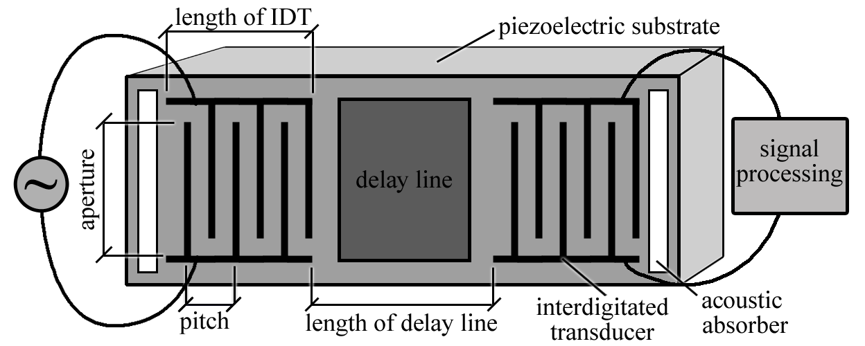 General structure of a surface acoustic wave sensor with connections to an AC voltage source and a signal processing unit. In some sensors, the acoustic absorbers are replaced with reflectors to decrease insertion loss. A wireless surface acoustic wave sensor can be made by replacing the output IDT and coupling the input IDT to an radio-frequency (RF) antenna rather than a voltage source.